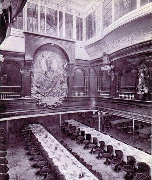 First Class Dining Saloon of the SS Deutschland (1900)